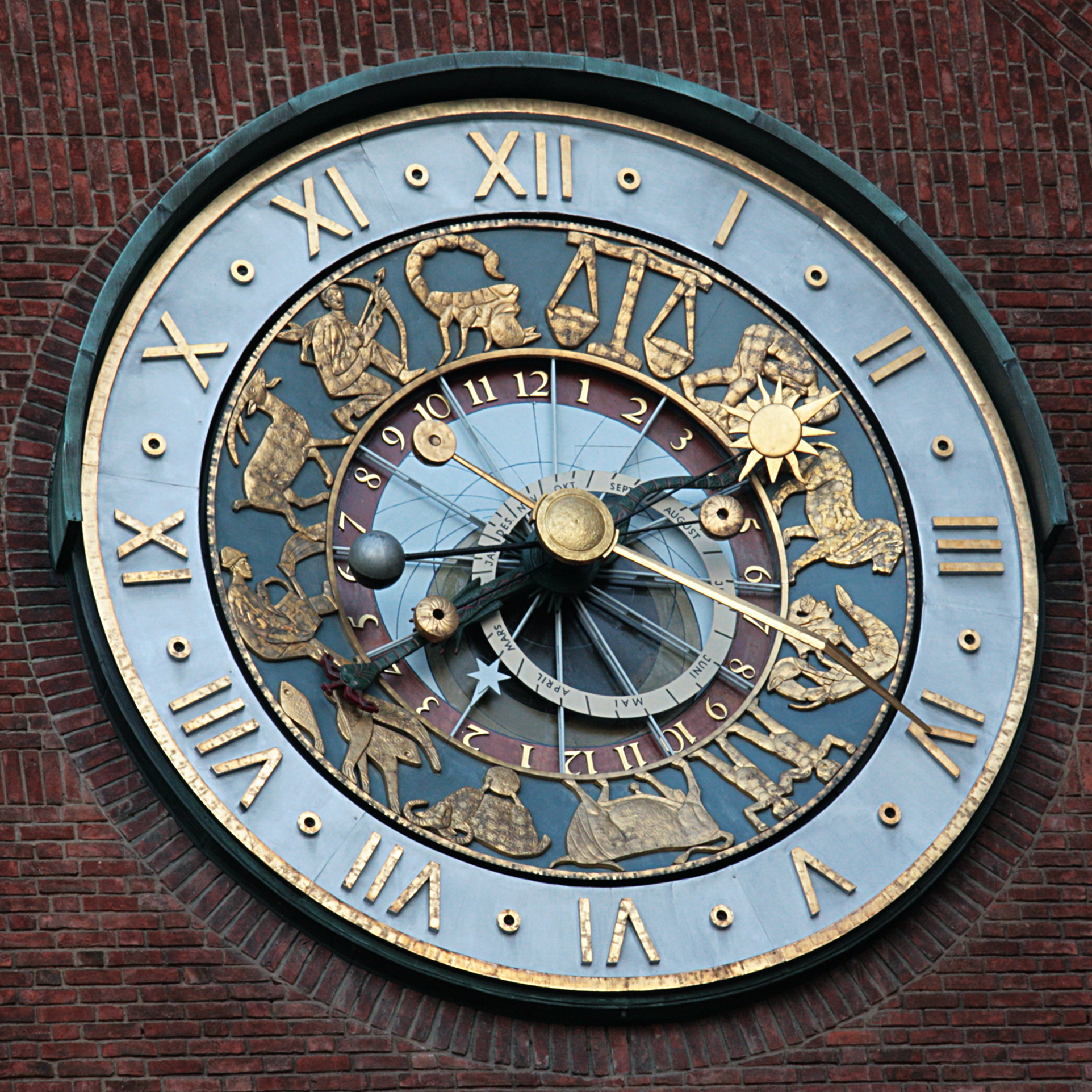 The astronomical clock on the north side of Oslo City Hall